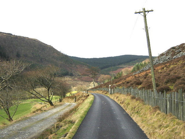 Lane up the Llefenni valley The lane is part of National Cycle Route 8. The track on the left leads to Bluemaris cottage.